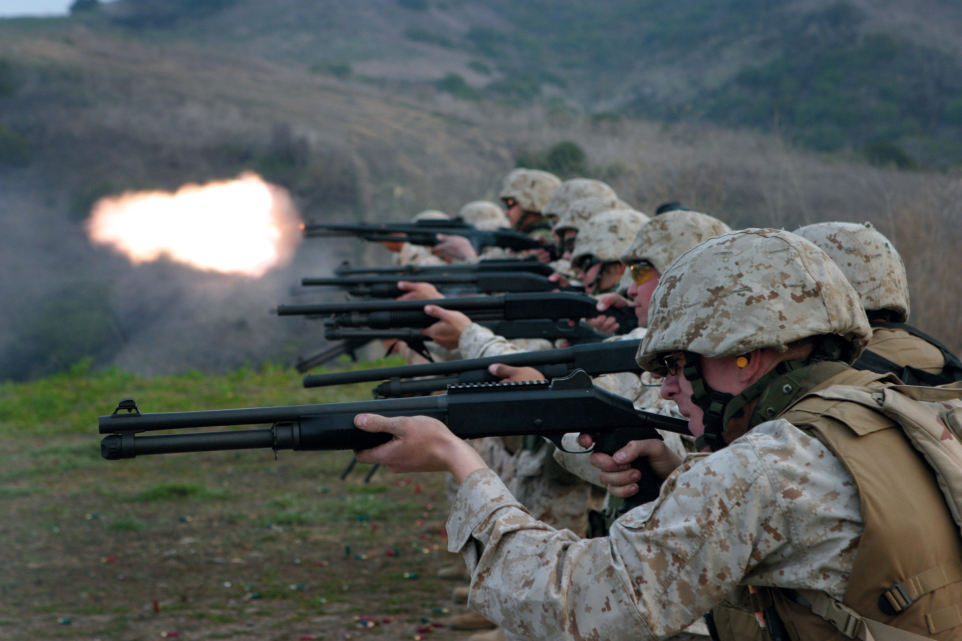 MARINE CORPS BASE CAMP PENDLETON, Calif. -Members of Military Police Company, 1st Marine Logistics Group, fire their shotguns during a week-long exercise taught by the National Rifle Association. The Marines learned pistol and shotgun techniques to help them prepare for their spring deployment.